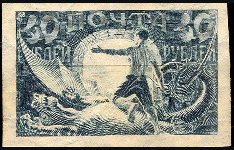 Stamp of Soviet Russia (RSFSR), "Proletarian Freed" ("Russia New Triumphant"), 1921, 40 rubles. CPA #7; Scott #187.